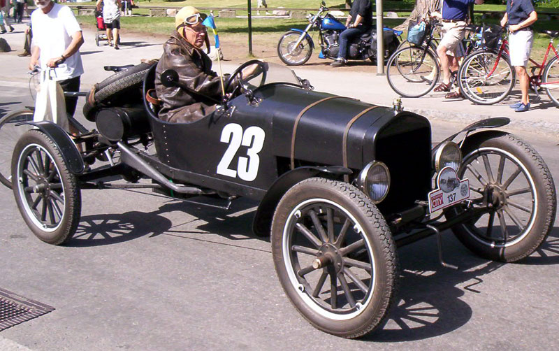 Ford Model T Dirt Track Racer 1923